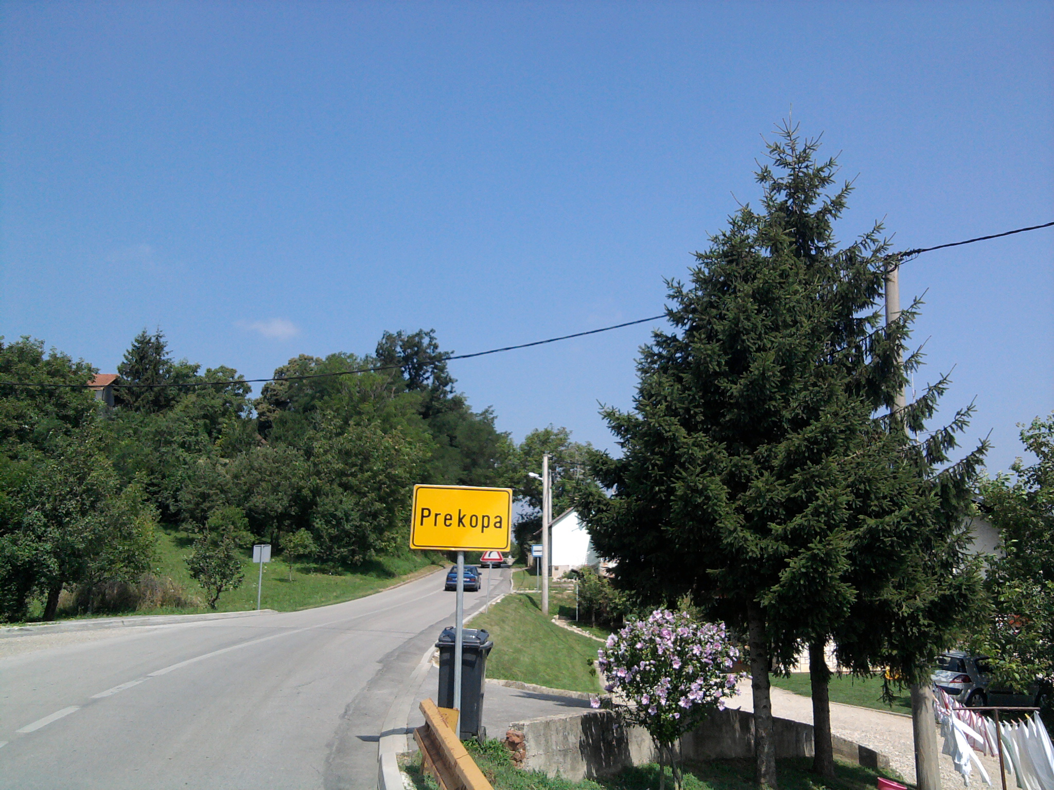 Traffic sign at the entrance to the village Prekopa.